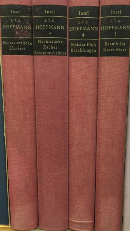 Four volume set of Hoffman's writings